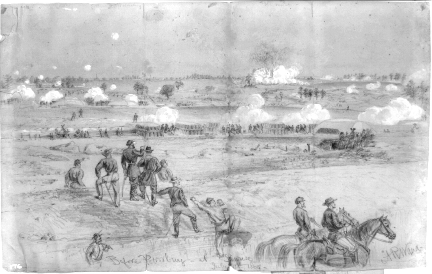 Before Petersburg at sunrise, July 30th 1864. MEDIUM: 1 drawing on green paper : pencil and Chinese white ; 34.5 x 51.3 cm. (sheet) CREATED/PUBLISHED: 1864 July 30. Signed lower right: AR Waud. Title inscribed below image. Inscribed above image: Spires in Petersburg. The mine. Inscribed on separate sheet of cream paper: Explosion of the mine under the Confederate works at Petersburg—July 30th 1864. The spires in the distance mark the location of the city; along the crest, in front of them are the defensive works, it was an angle of these that was blown up, with its guns & defenders. The explosion was the signal for the simultaneous opening of the artillery and musketry of the Union lines. The pickets are seen running in from their pits & shelters on the front, to the outer line of attack. In the middle distance, are the magnificent 8 & 10 inch Mortar batteries, built and commanded by Col. Abbott. Nearer is a line of abandoned rifle pits, and in the foreground is the covered way, a sunken road for communication with the siege works and the conveyance of supplies and ammunition to the forts. The chief Engineer of the A. of P. is standing upon the embankment watching progress throw [sic] a field glass. Published in: Harper's Weekly, August 20, 1864, pp. 536–7. Gift, J.P. Morgan, 1919 (DLC/PP-1919:R1.2.727) Reference print available in the Civil War Drawings file—1864. Reference print available in Ray, Plate 83 (pp. 162–163) Forms part of: Civil War drawing collection. Published in: Viewpoints; a selection from the pictorial collections of the Library of Congress ... Washington: Library of Congress ..., 1975, no. 83.